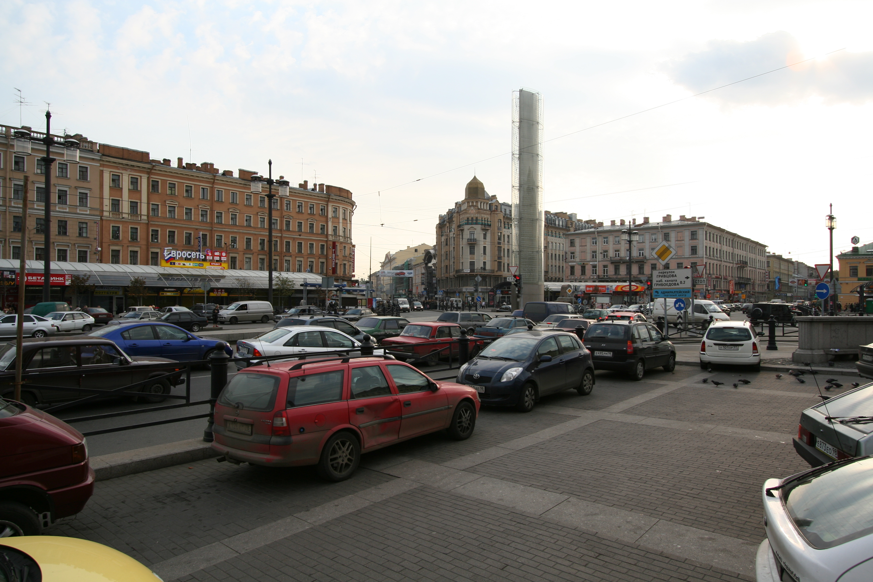 Sennaya square, SPb, Russia